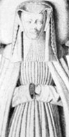 Effigy in Chapel of St Nicholas, Westminster Abbey, of Philippa de Mohun (d.1431), Duchess of York, wife of Edward of Norwich, 2nd Duke of York (c.1373-1415), Lord of the Isle of Wight, a grandson of King Edward III (1327-1377). Detail from engraving of drawing by Stothard, Charles Alfred (1786-1821), published in his Monumental Effigies of Great Britain, London, 1876